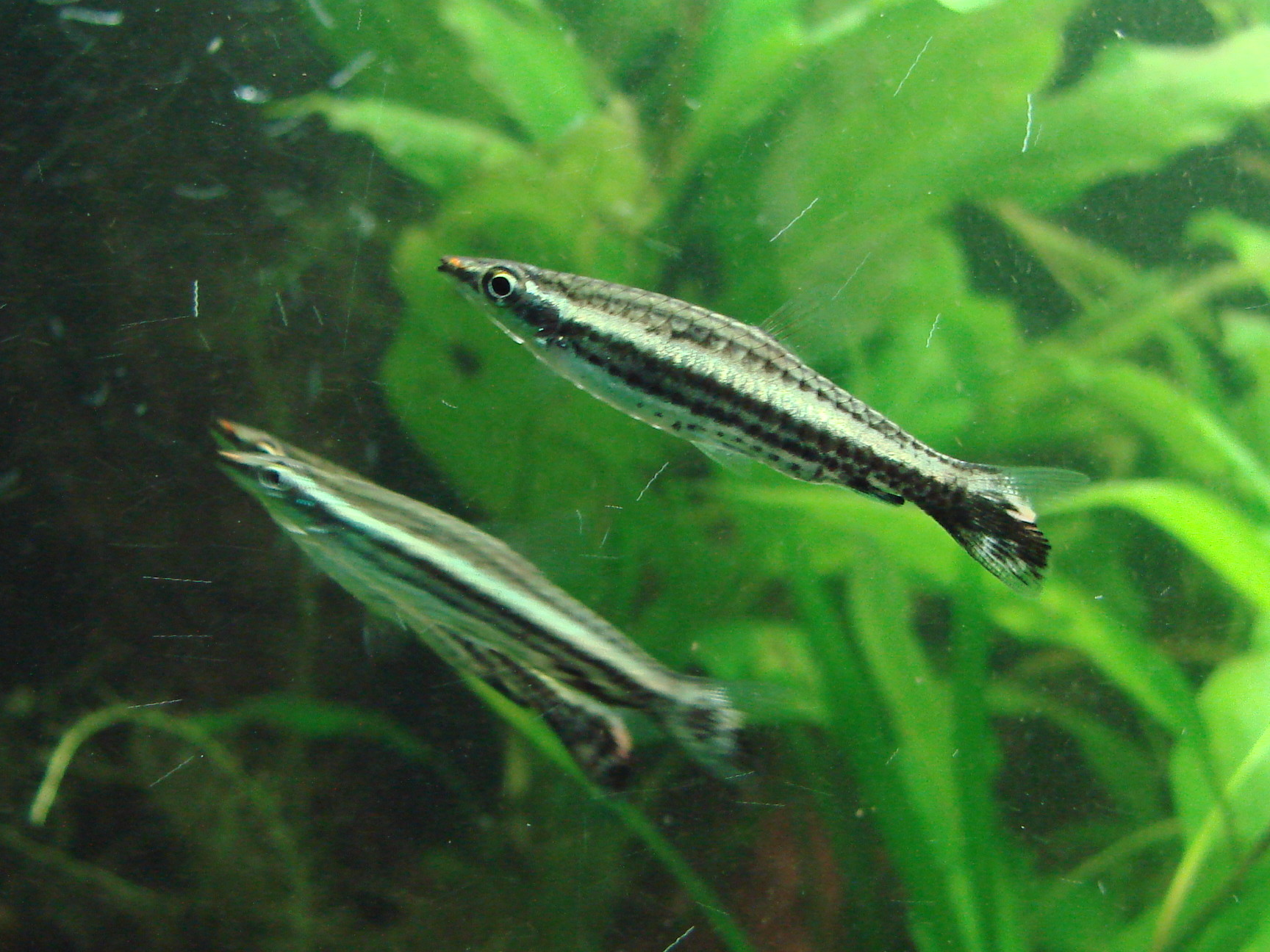 Picture taken in the zoo of Wrocław (Poland): Nannostomus eques (Steindachner, 1876)